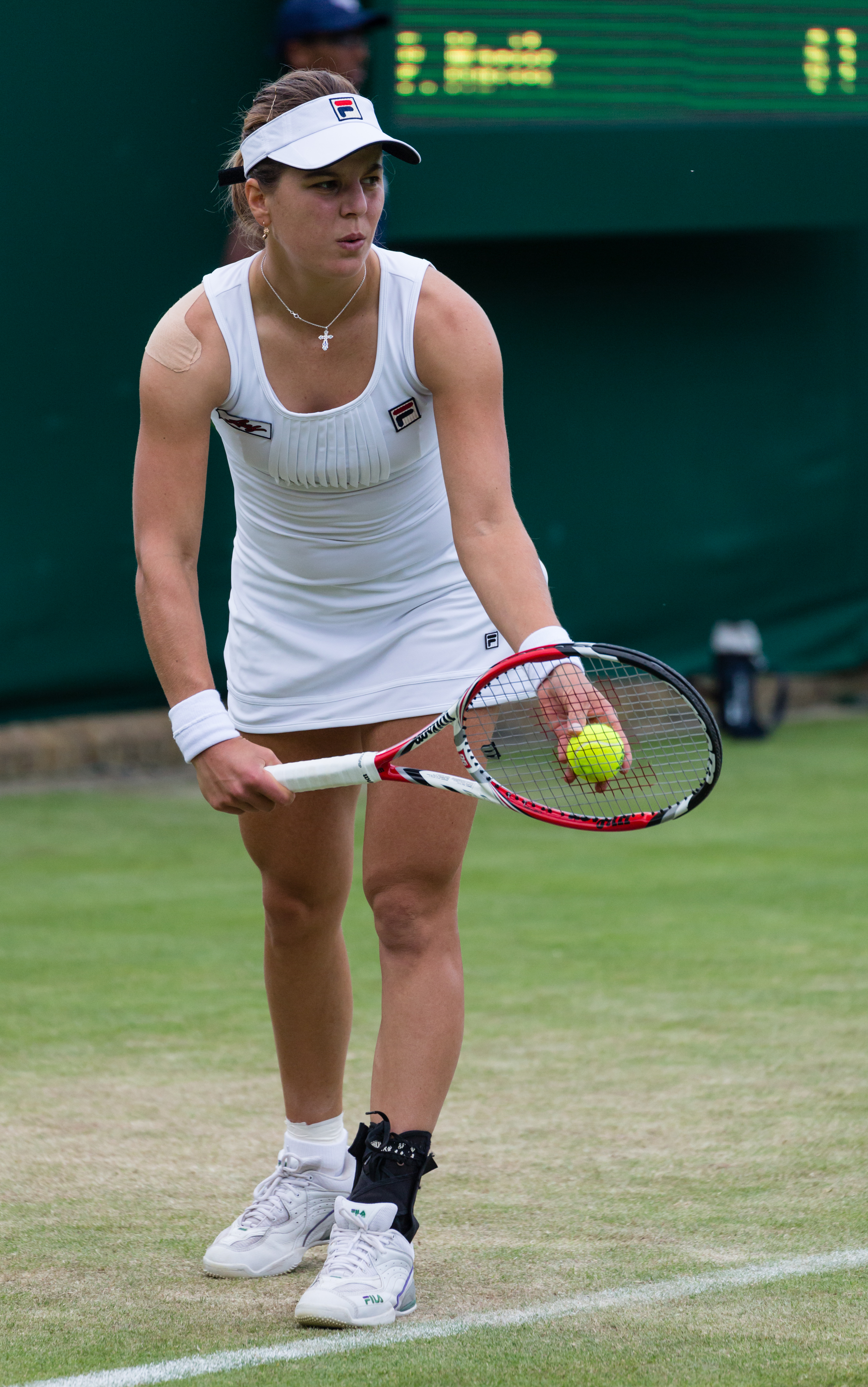 Anna Tatishvili in the first round of Wimbledon 2013 against Petra Martic.